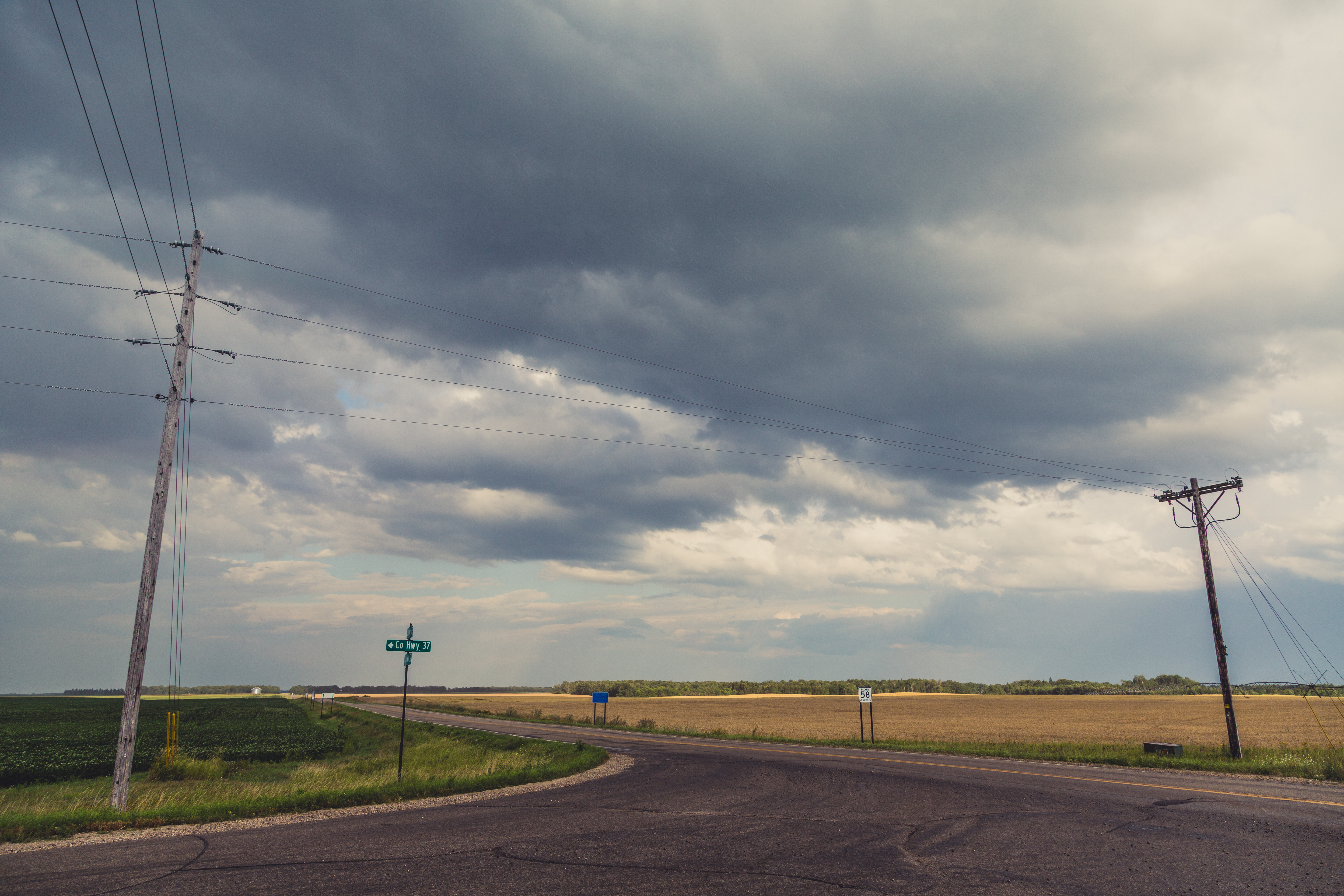 Highways 37 and 58 meet in Pine Point Township, Becker County, Minnesota